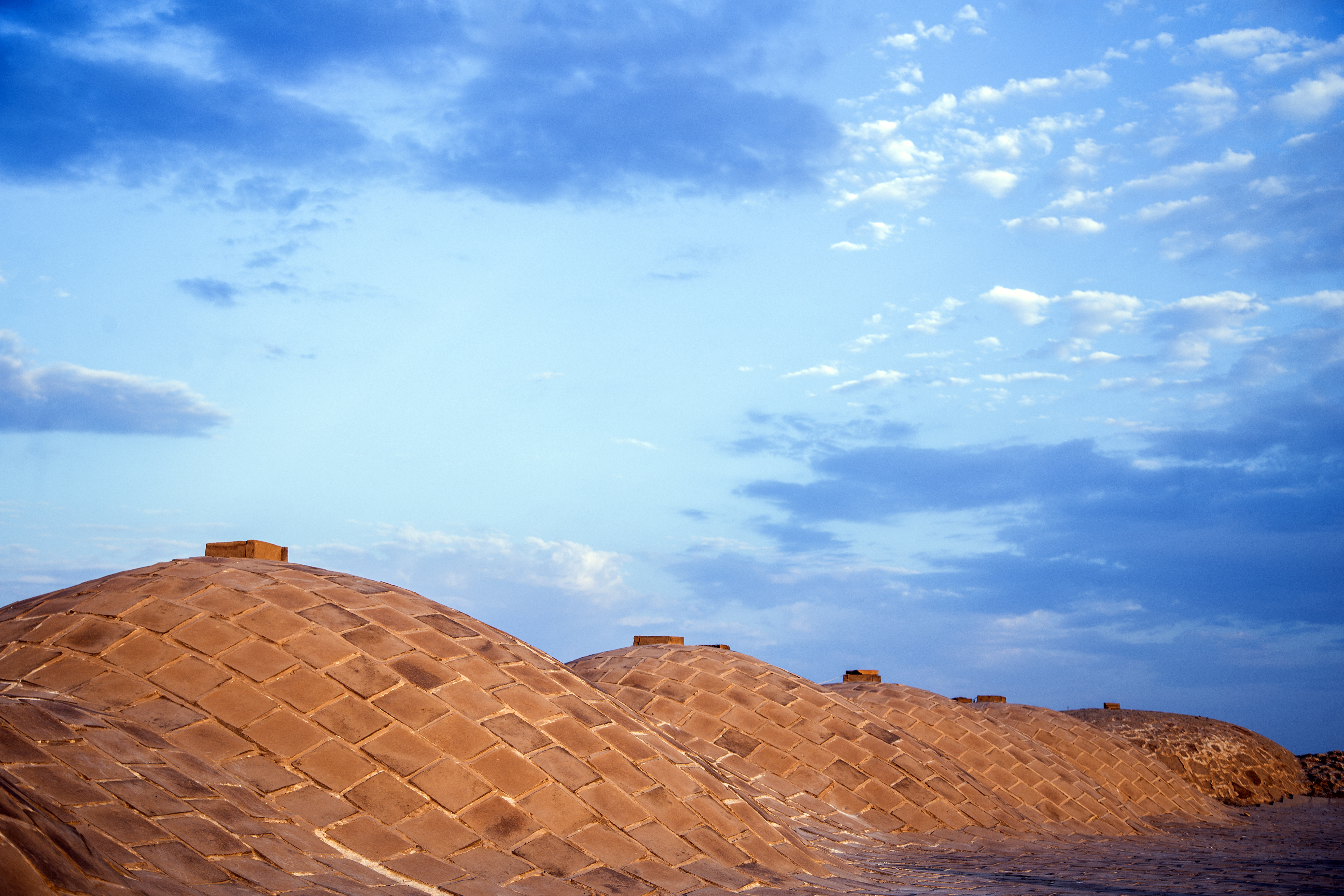 Deir-e Gachin Caravansarai is one of the greatest caravansarais of Iran which is located in the center of Kavir National Park. Its unique qualities is the reason it is called “Mother of Iranian Caravansarais”. It is located in the Central District of Qom County, 80 kilometers north-east of Qom (60 kilometers into Garmsar Freeway) and 35 kilometers south-west of Varamin. (Photo by: Mostafa Meraji, wiki loves monuments 2018)